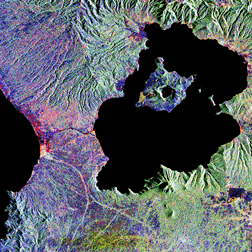 Lake Taal and Taal Volcano radar satellite image. From [1]. Emphasis on the Pansipit River-Taal Lake system.